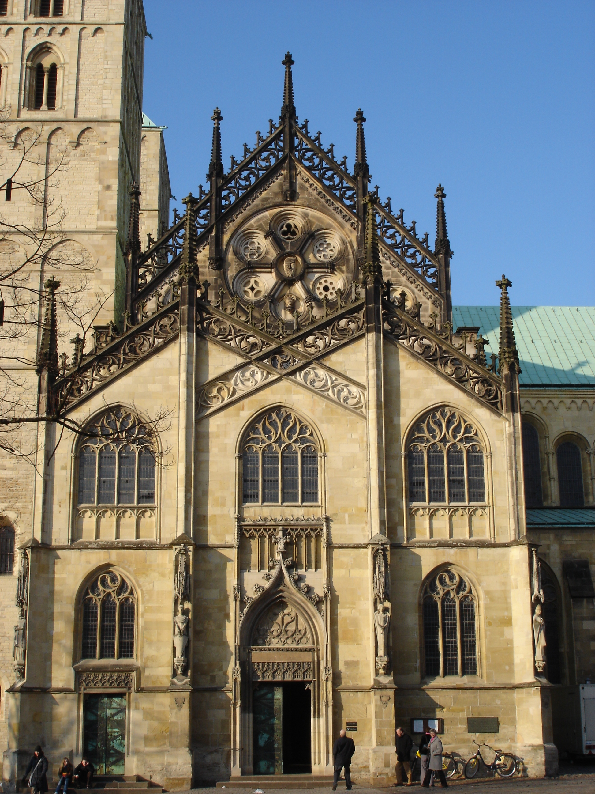 View on the Paradiesvorhalle (hall of paradise) of the St.-Pauls-Cathedral in Münster, Westphalia, Germany